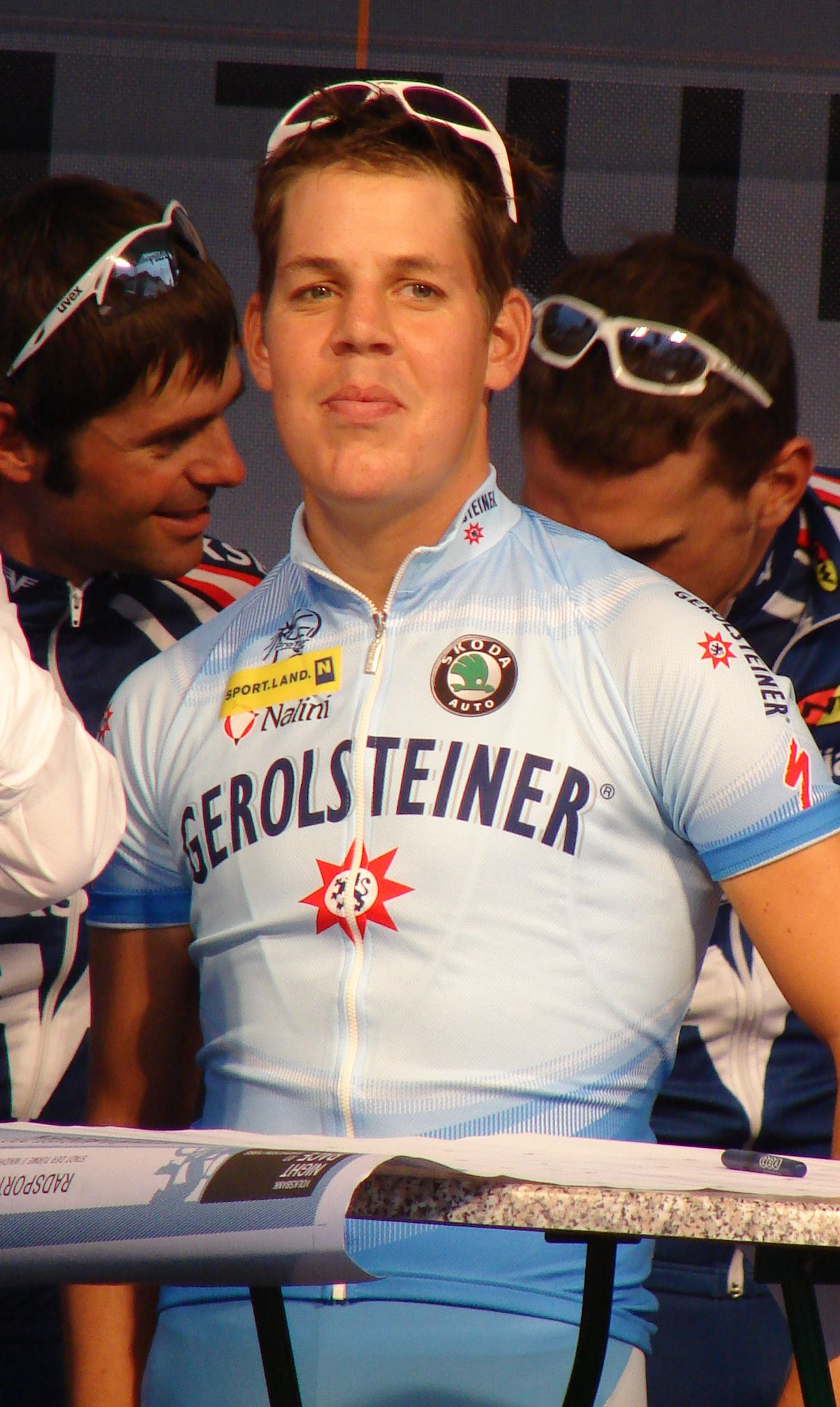 Austrian bicycle racer Bernhard Kohl during the "Nightrace .07" in Waidhofen an der Ybbs on August 24, 2007.